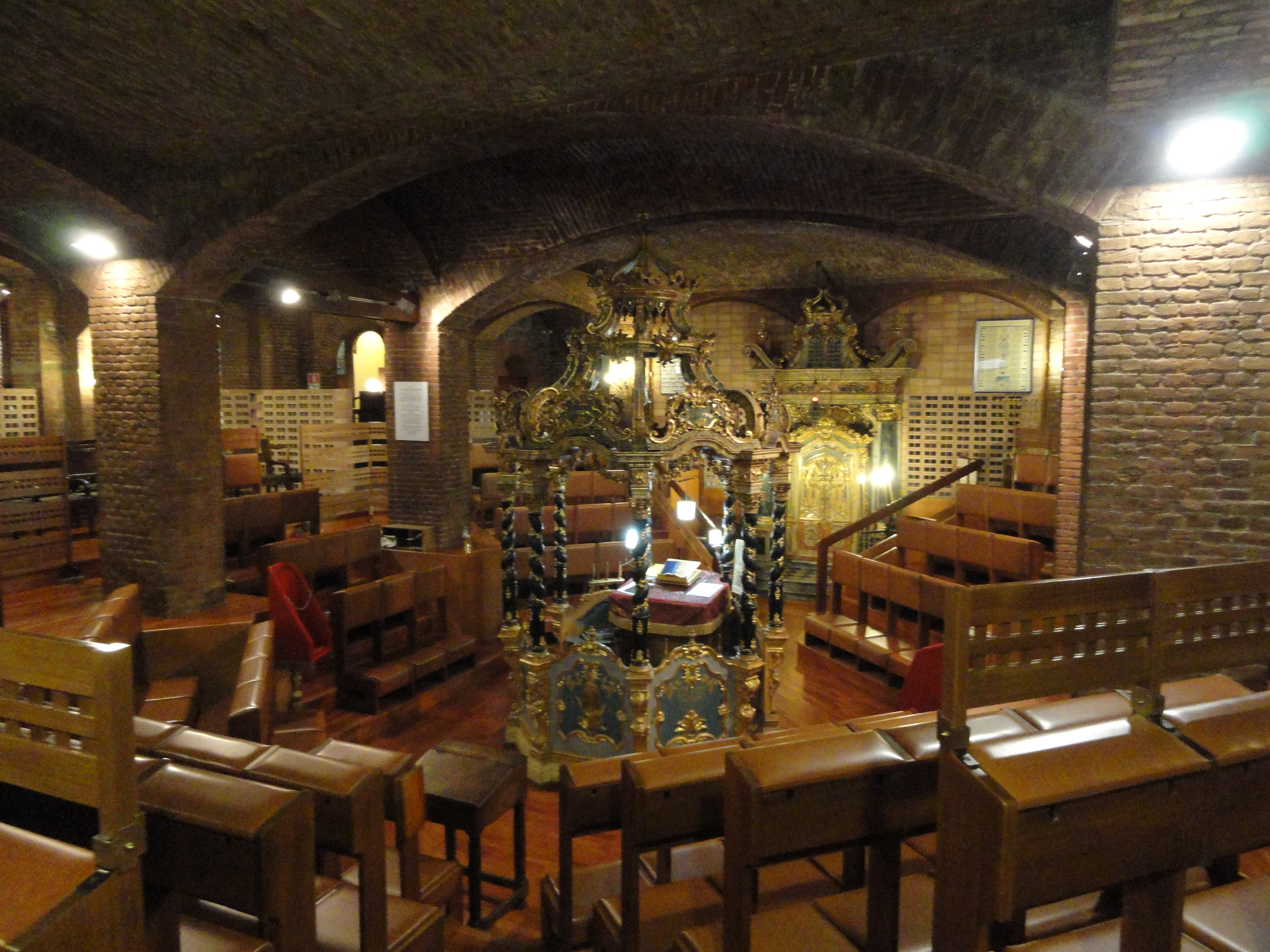 Synagogue of Turin. the new underground temple (Italian rite)